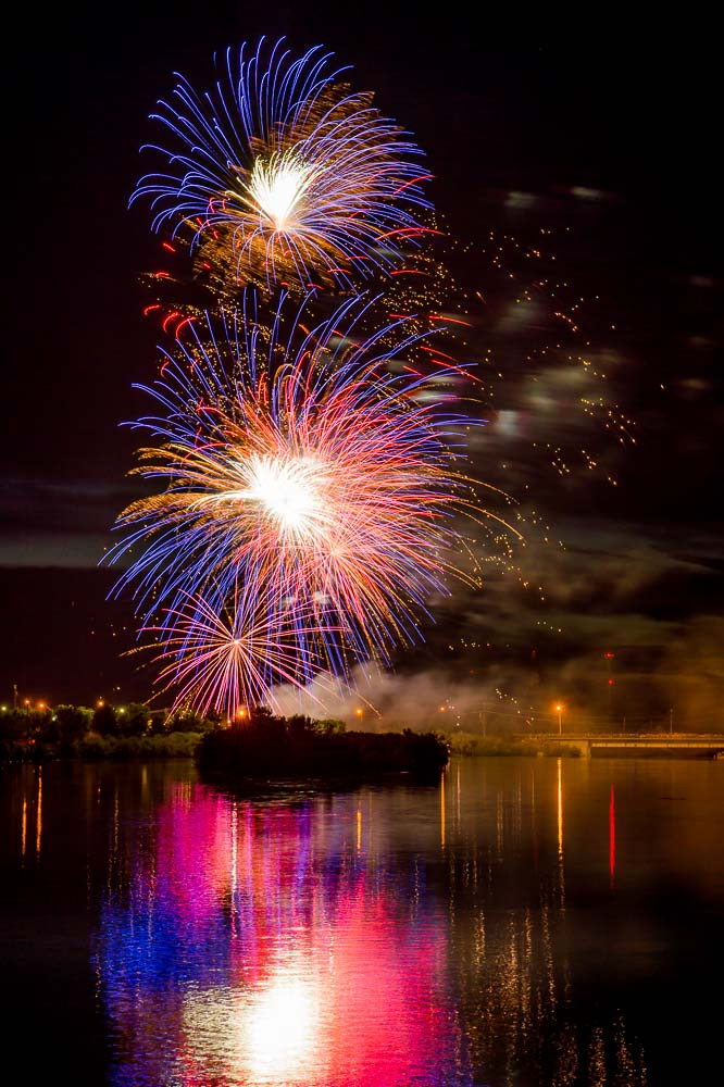 2014 Melaleuca Freedom Celebration Fireworks in Idaho Falls, ID. On the banks of the Snake River. 4th Of July. Independence Day. Photo by Brad Barlow, B2X Photo.